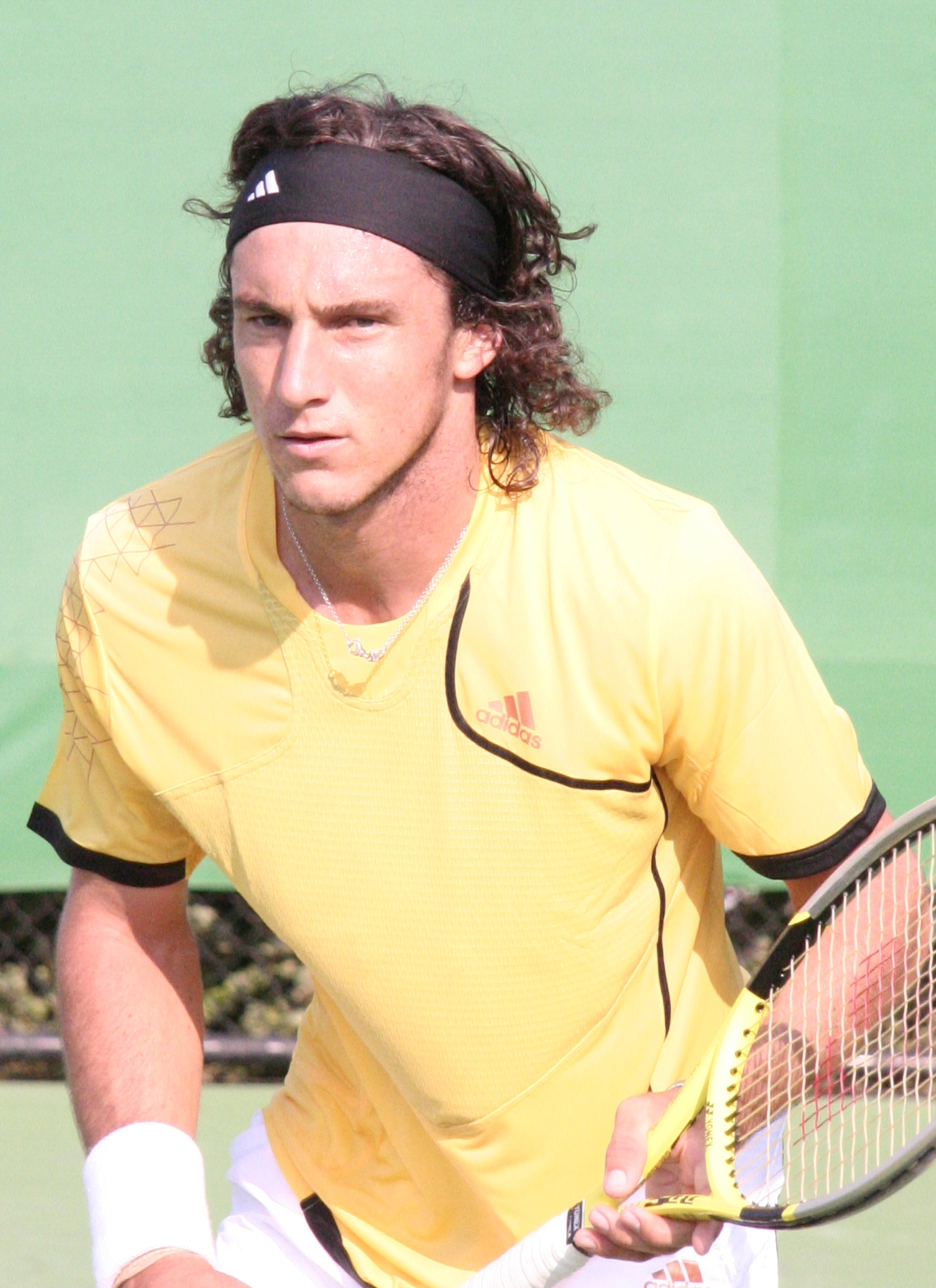 Juan Monaco at their first-round match of the 2007 Australian Open.